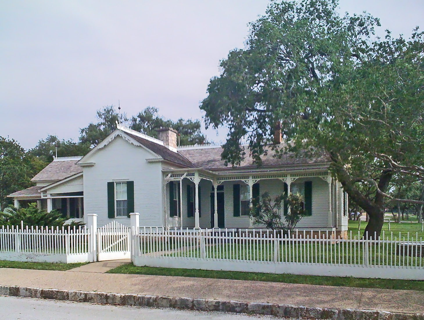 LBJ boyhood home. Lyndon B. Johnson National Historical Park, Texas.